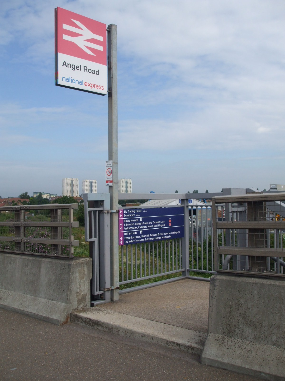 The sole entrance to Angel Road station on north side of Conduit Lane. A footbridge and path lead southwards a considerable distance to the platforms.